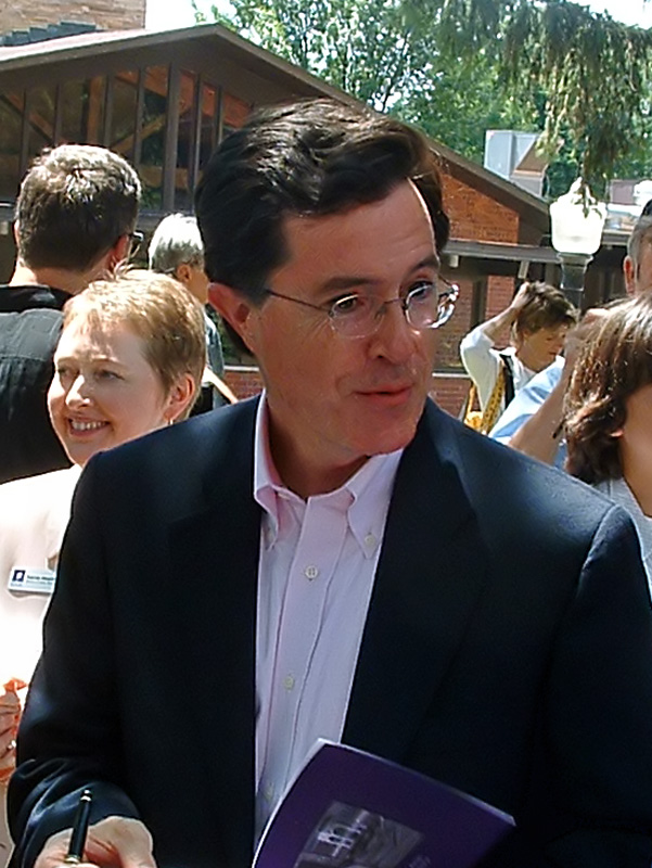 American comedian and television show host Stephen Colbert. Photographed June 3, 2006 at Knox College in Galesburg, Illinois.